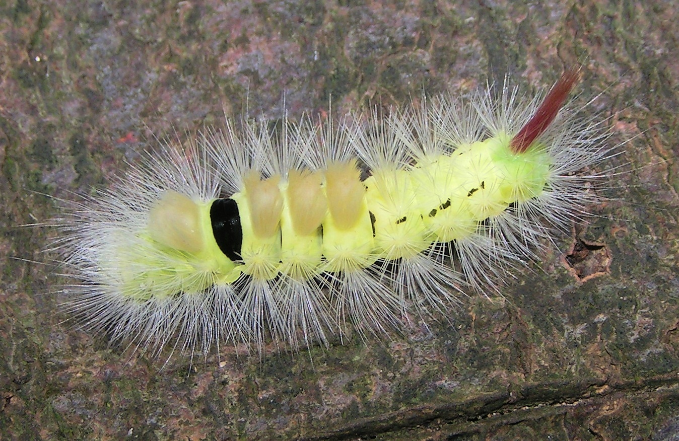 Calliteara pudibunda caterpillar october 7, 2005 by Pethan Amelisweerd, The Netherlands